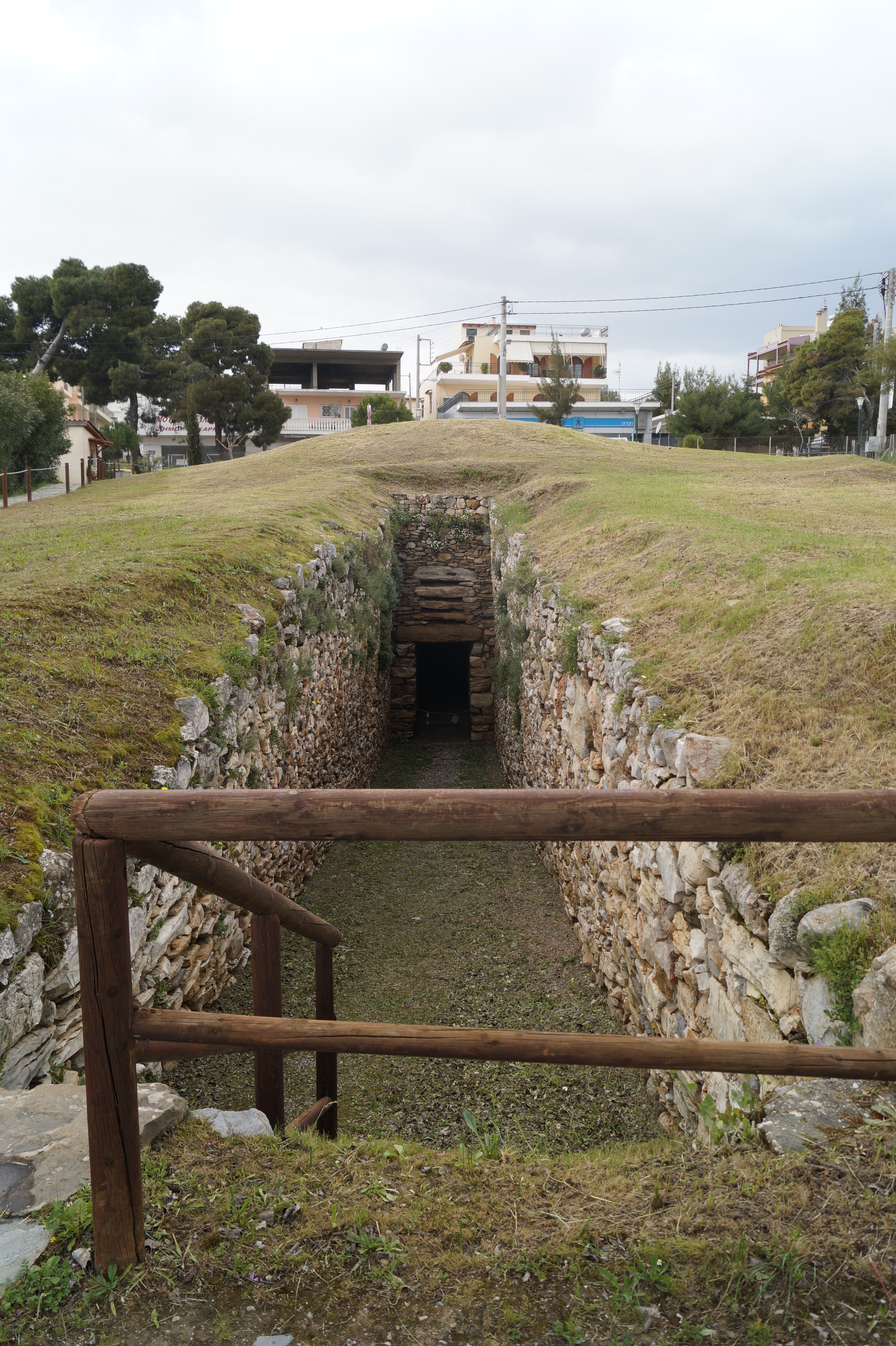 Acharnes, Lycotrypa. The corridor and entrance of the tholos tomb of Menidi.